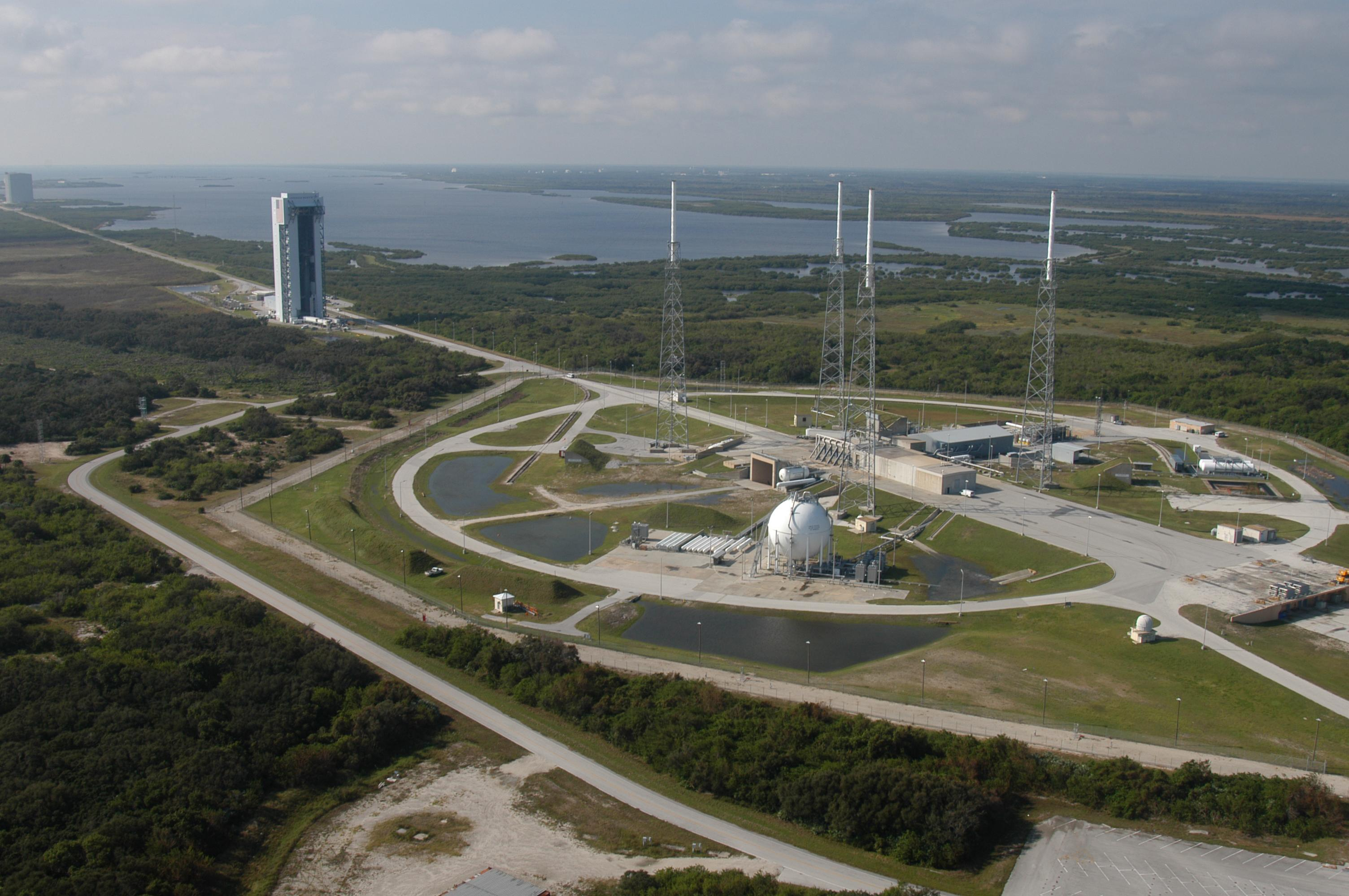 An aerial view of the Launch Complex 41 at Cape Canaveral Air Force Station in Florida. At left is the Vertical Integration Facility that holds the Lockheed Martin Atlas V rocket that will launch NASA's New Horizons spacecraft.